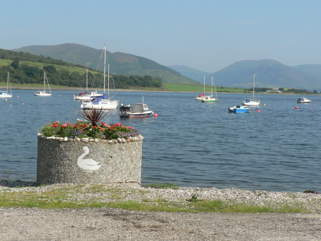 Port Bannatyne: decorative flowerpot A nice floral arrangement on the waterfront at Port Bannatyne.